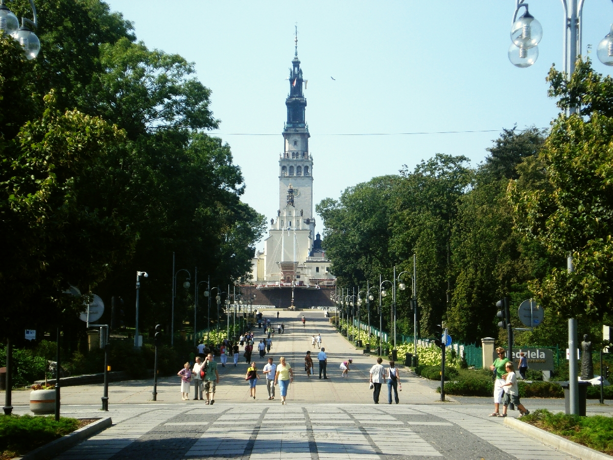 Henryk Sienkiewicz Avenue in Częstochowa